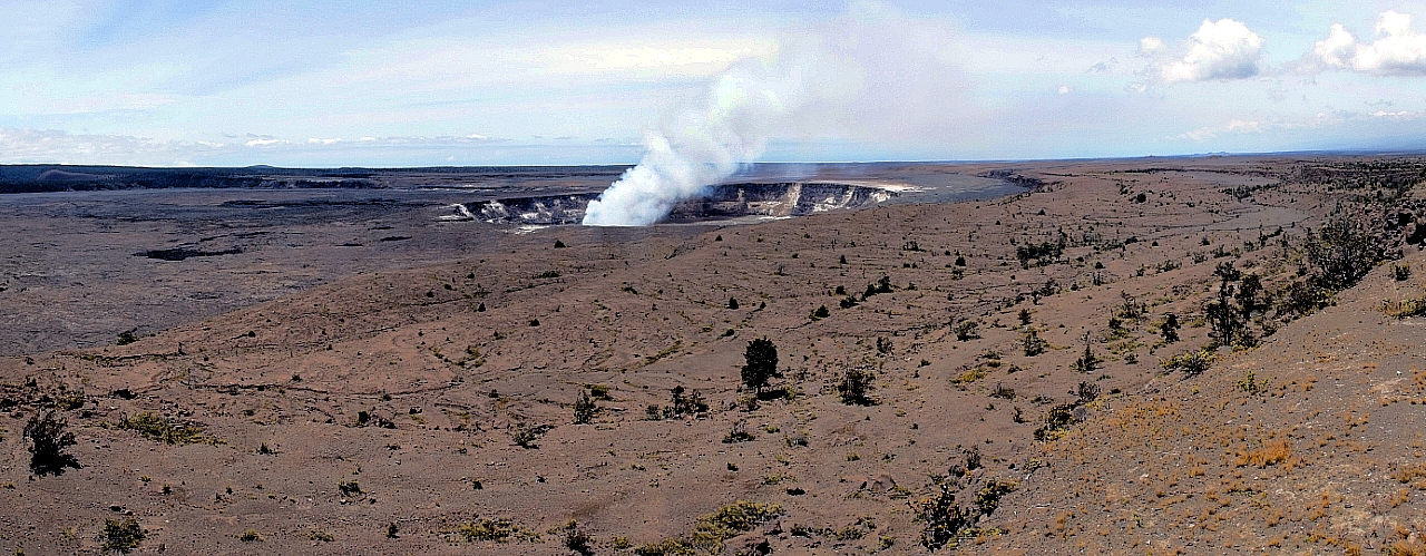 Kilauea volcano with vog from Halema'uma'u crater